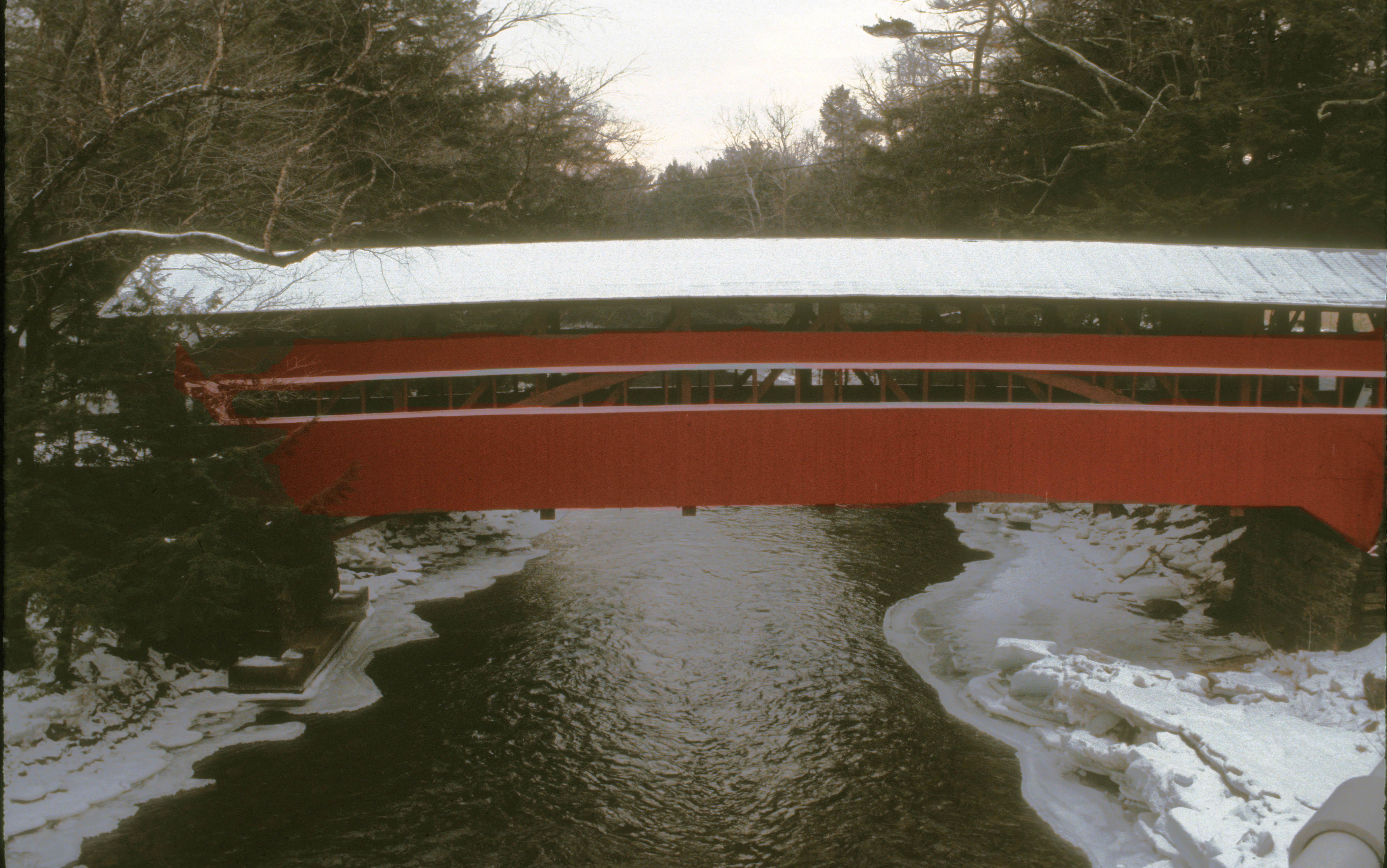 West Paden Twin Covered Bridge, built in 1850 over Huntington Creek in Fishing Creek Township, Columbia County, Pennsylvania, USA. This photo shows the bridge in 1982, before it was destroyed in a flood in 2006 and then rebuilt in 2008. (Its twin, East Paden Twin Covered Bridge, which was damaged by a tree falling on it and a fire in 2004; it was later restored (and is not in this picture). For a brief history of both bridges see here)